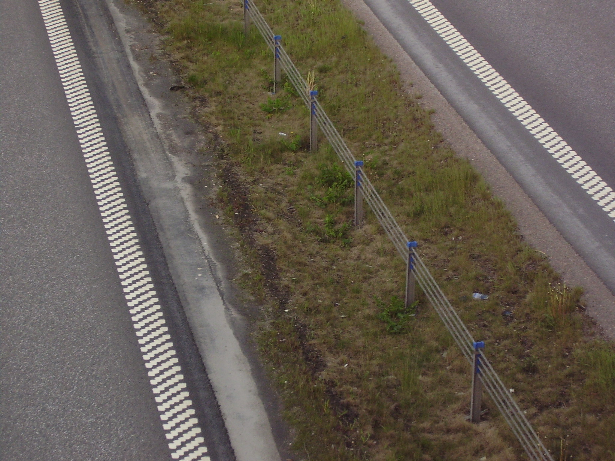 Central reservation on a motorway (Autobahn) near Linköping in Sweden. Vajerräcke2